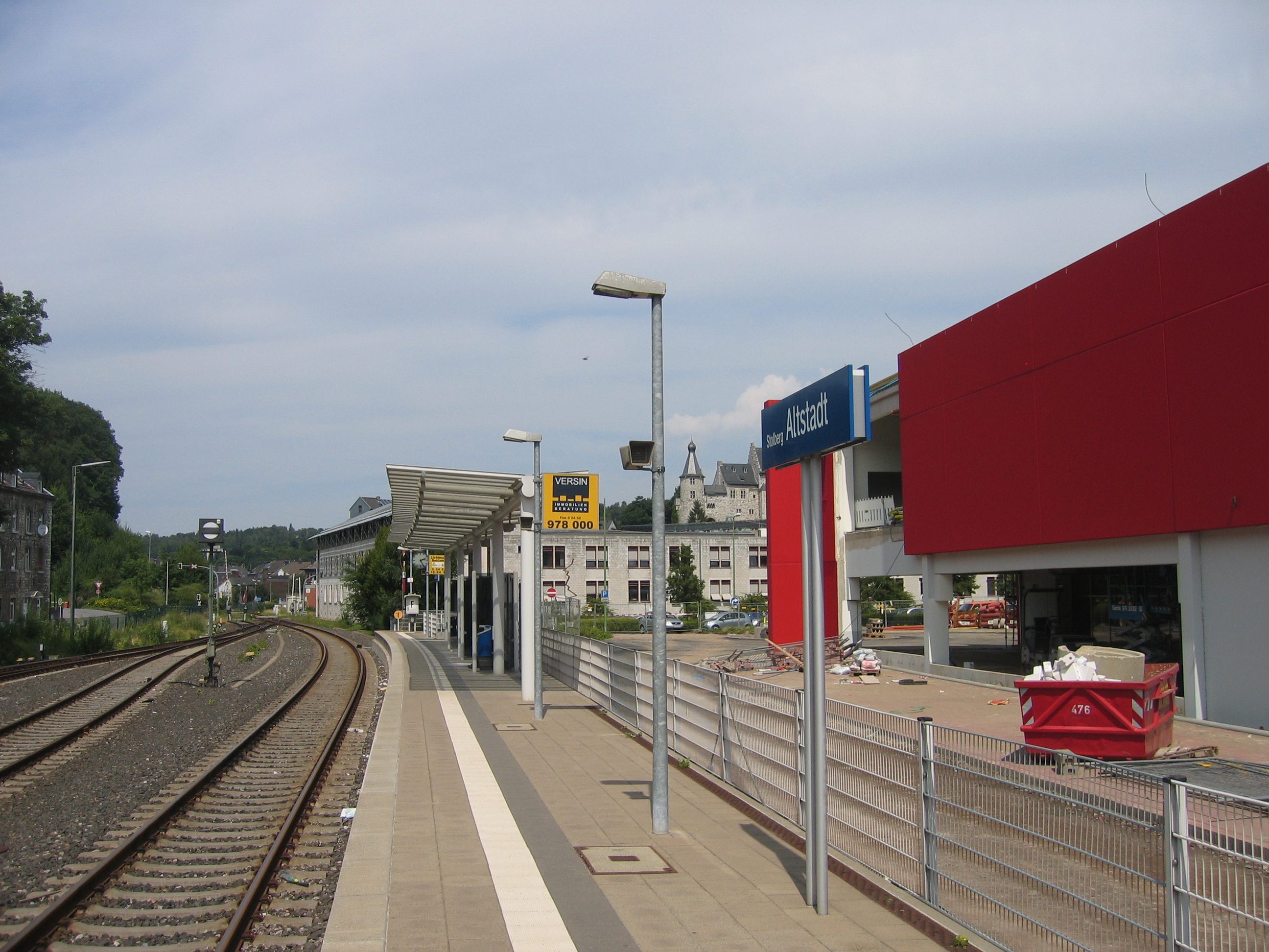 Station Stolberg-Altstadt of the Euregiobahn on the railway line Stolberg-Eupen